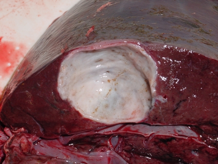 The fibrous capsule in the liver parenchyma of red deer infected with Fascioloides magna. Five adult flukes were recovered from this capsule.